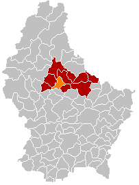 Own edit of Kanton DiekirchLocatie.png